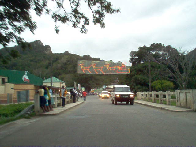 The busy center of Port St. Johns